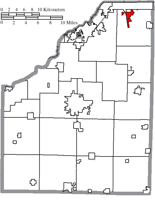 Map of the municipal and township boundaries of Wood County, Ohio, United States, as of the 2000 census, with the location of the village of Walbridge highlighted. Township borders are shown only in unincorporated areas in order to differentiate incorporated and unincorporated areas more clearly.